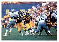 A football card from the 1986 Jeno's Pizza NFL football card stickers set of Los Angeles Rams' running back Eric Dickerson rushing the ball against the Dallas Cowboys in the 1985 NFC Divisional Playoffs game on January 4, 1986. The card is numbered #23 in the set. The back of the card reads: THE DAY DICKERSON DESTROYED DALLAS Rams running back Eric Dickerson slices through a hole behind teammate Barry Redden's block on Dallas linebacker Mike Hegman, as the Rams blank the Cowboys 20-0 in their 1985 Divisional Playoff Game. Dickerson set an all-time playoff mark by rushing for 248 yards, including touchdown sprints of 40 and 55 yards.